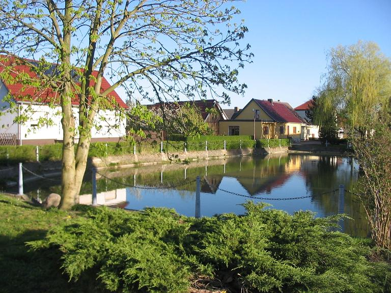 Pond in Senst. Senst is a municipality in the Nature park Fläming in the district Wittenberg, state Saxony-Anhalt, Germany.